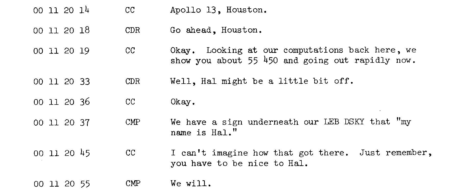 Excerpt from the transcription of the radio communications between Mission Control and Apollo 13's crew, when joking about HAL.